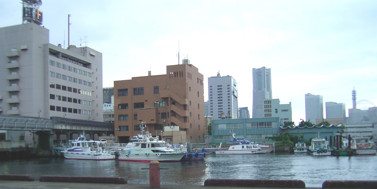 Public office Yokohama-Suijo_Police Japan